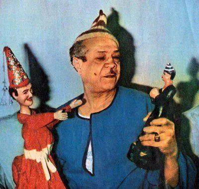 Mahmoud Shokoko with Shokoko doll and Aragoz